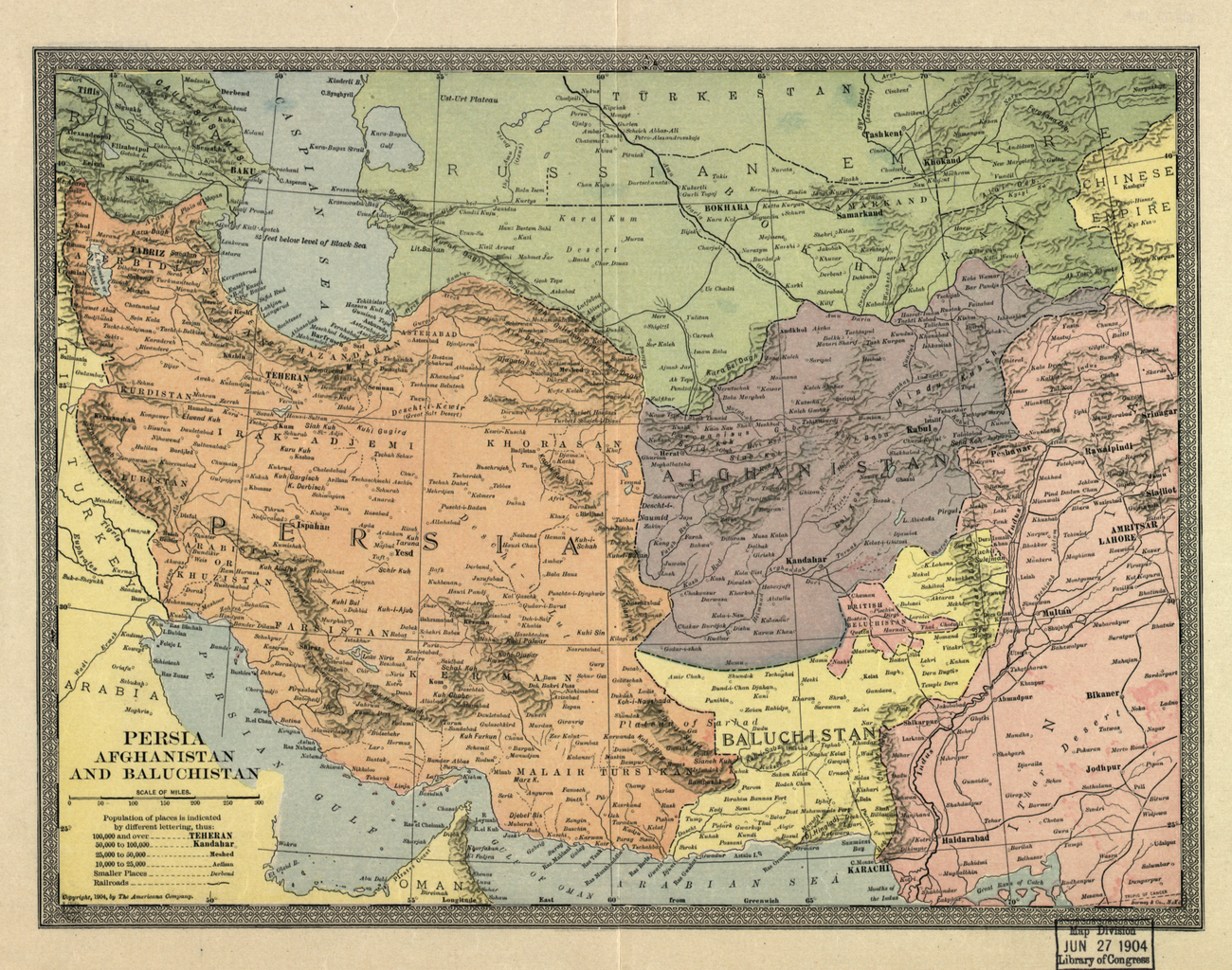 This 1904 map of Persia (as Iran was then known), Afghanistan, and parts of present-day Pakistan is by the Americana Company of New York, publisher of the Encyclopedia Americana. Also included in the map are large parts of Central Asia (known as Turkestan) that were then part of the Russian Empire, the extreme western part of China, and the Persian Gulf. The late 19th and early 20th centuries were a period of intense rivalry for influence in this part of the world between the Russian and British empires. Railroad construction was an important part of this rivalry, which was often called the “Great Game.” The map shows the strategically important Trans-Caspian Railway, built by Russia between 1879 and 1898, running from the eastern shore of the Caspian Sea to Samarkand and the Fergana Valley. Few railroads as yet existed in Iran, Afghanistan, and western Pakistan.